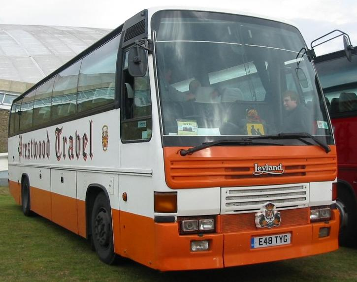 Leyland Royal Tiger coach (cropped from original source image)PRES E 48TYG 2004-09-26